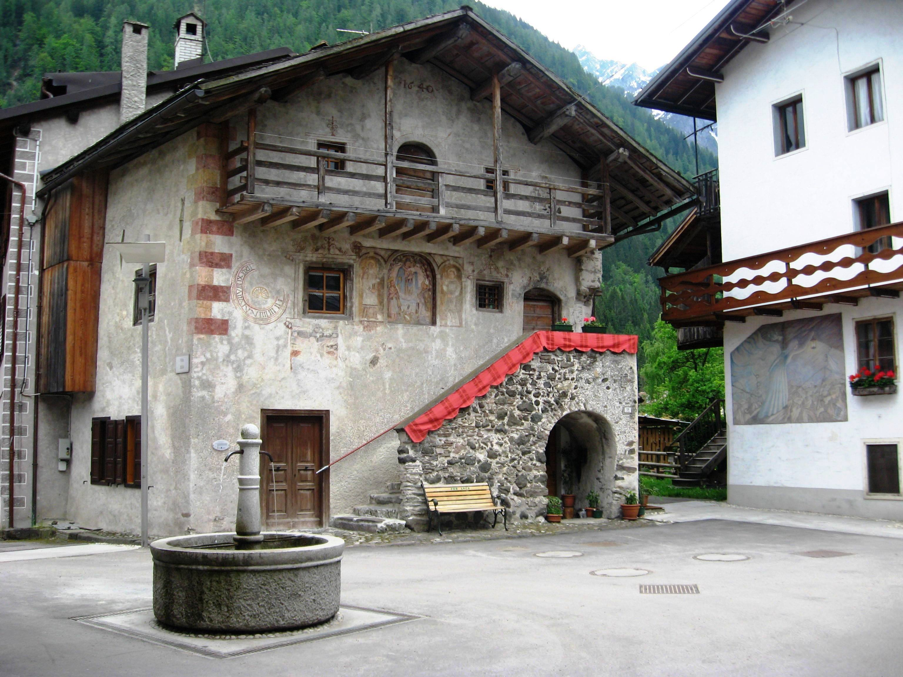 "Home of the Rules" building constructed 1640s